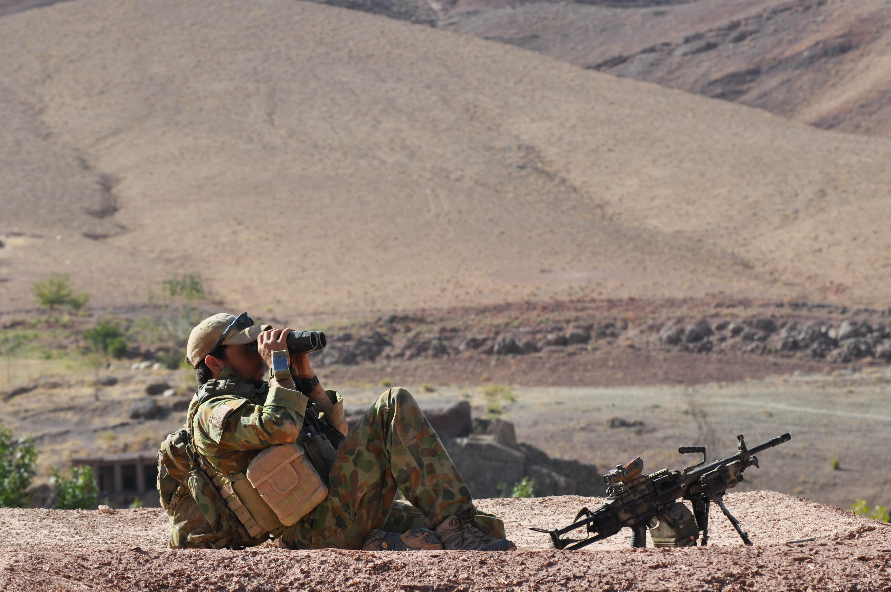 Early warning. A soldier from the Special Operations Task Group keeps watch from the roof of a quala during a patrol in southern Afghanistan.